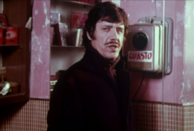 Italian actor Franco Franchi